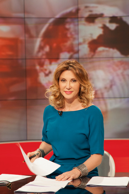 Italian journalist and news anchor Manuela Moreno.